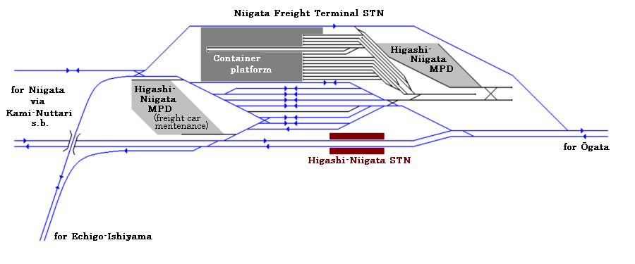 Niigata Freigth Terminal Station and Higashi-Niigata Station